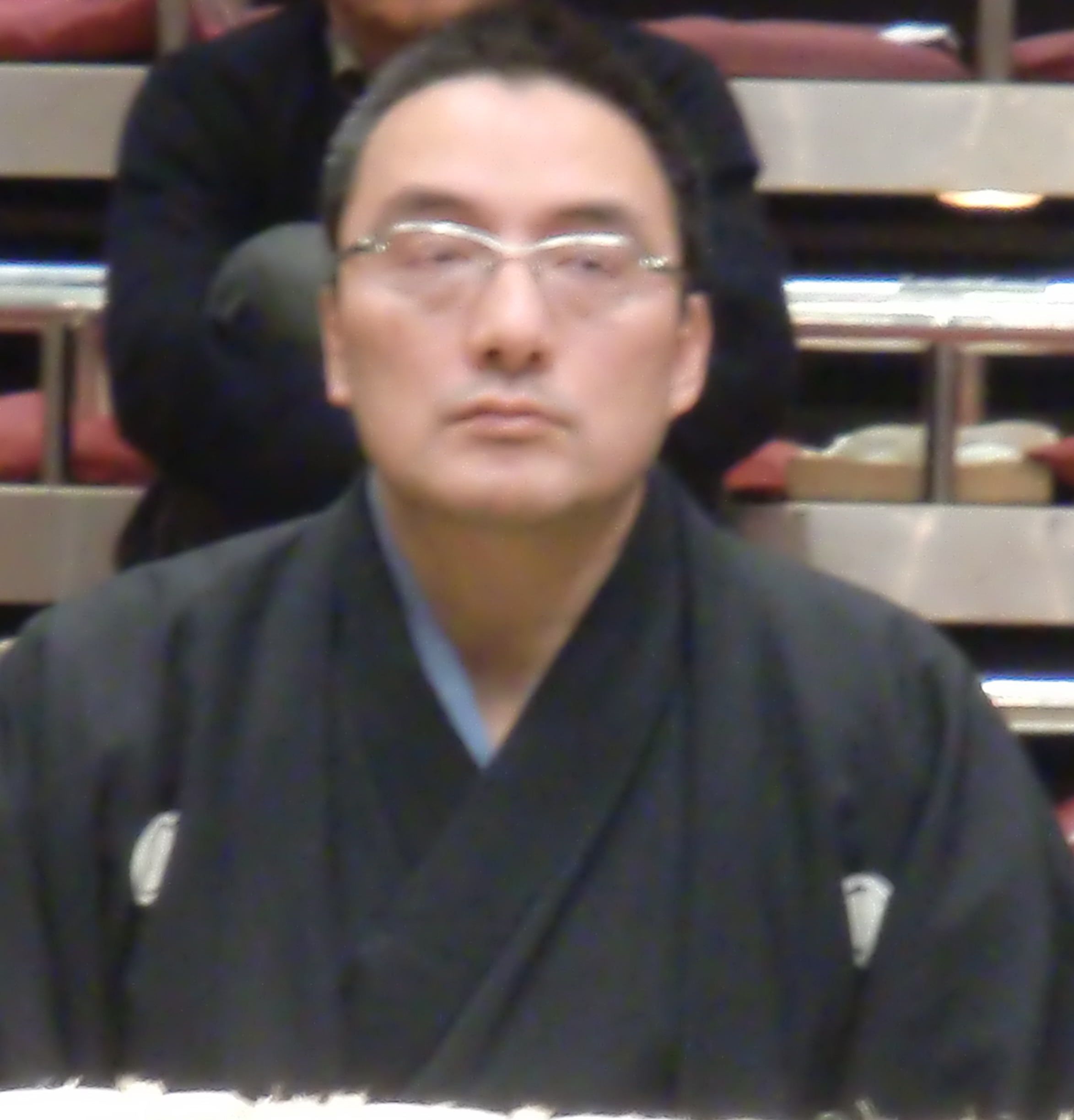 taken at Jan 2011 tournament